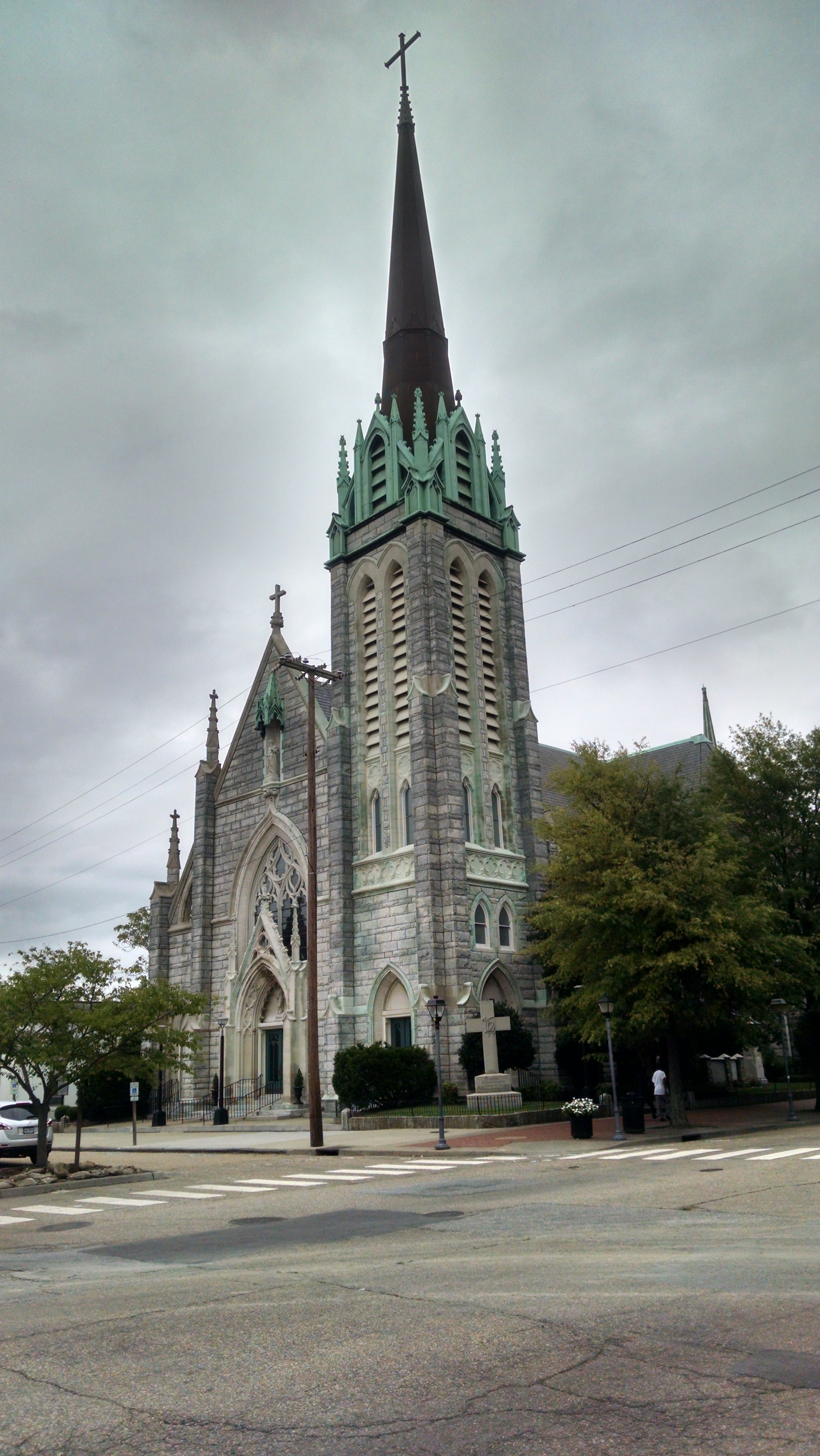 St. Paul